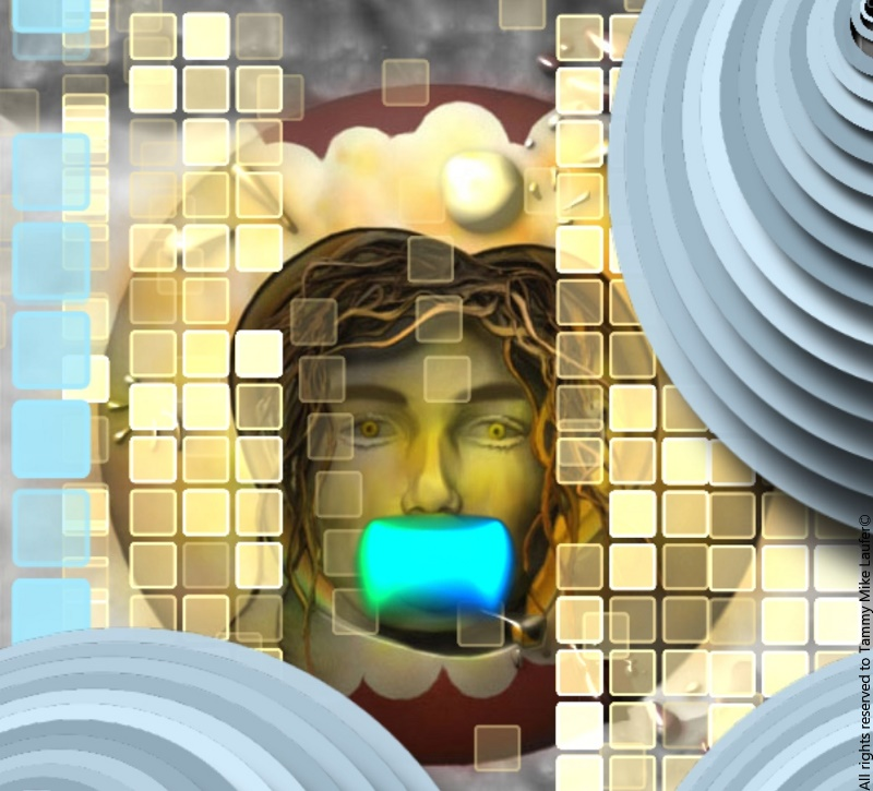 Memory birth, digital drawing 2010, by Tammy Mike Laufer